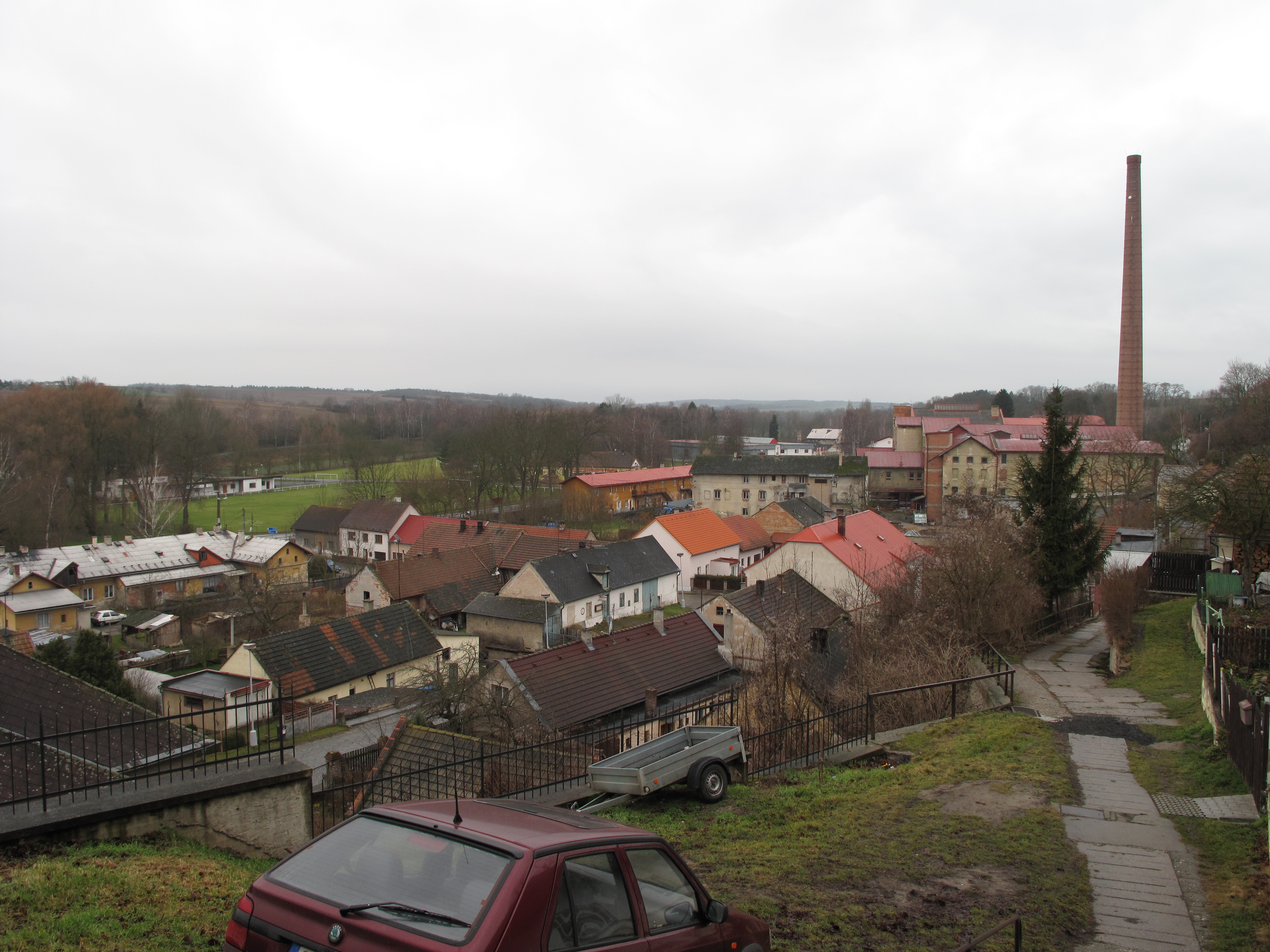 Kropáčova Vrutice village as seen from the hill, Mladá Boleslav District, Czech Republic.